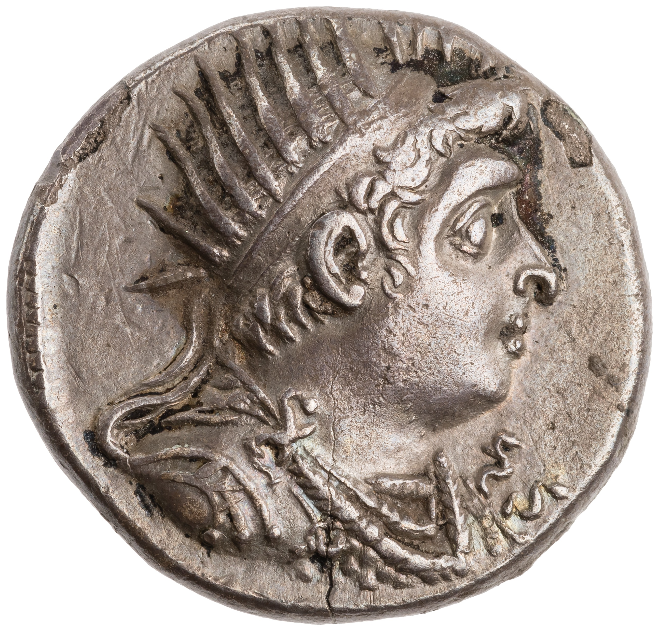 A rare didrachm from 138/137 BC. This series was the only one to include a portrait of Ptolemy VIII,[1] whose other coinage issues had his ancestor Ptolemy I's bust.